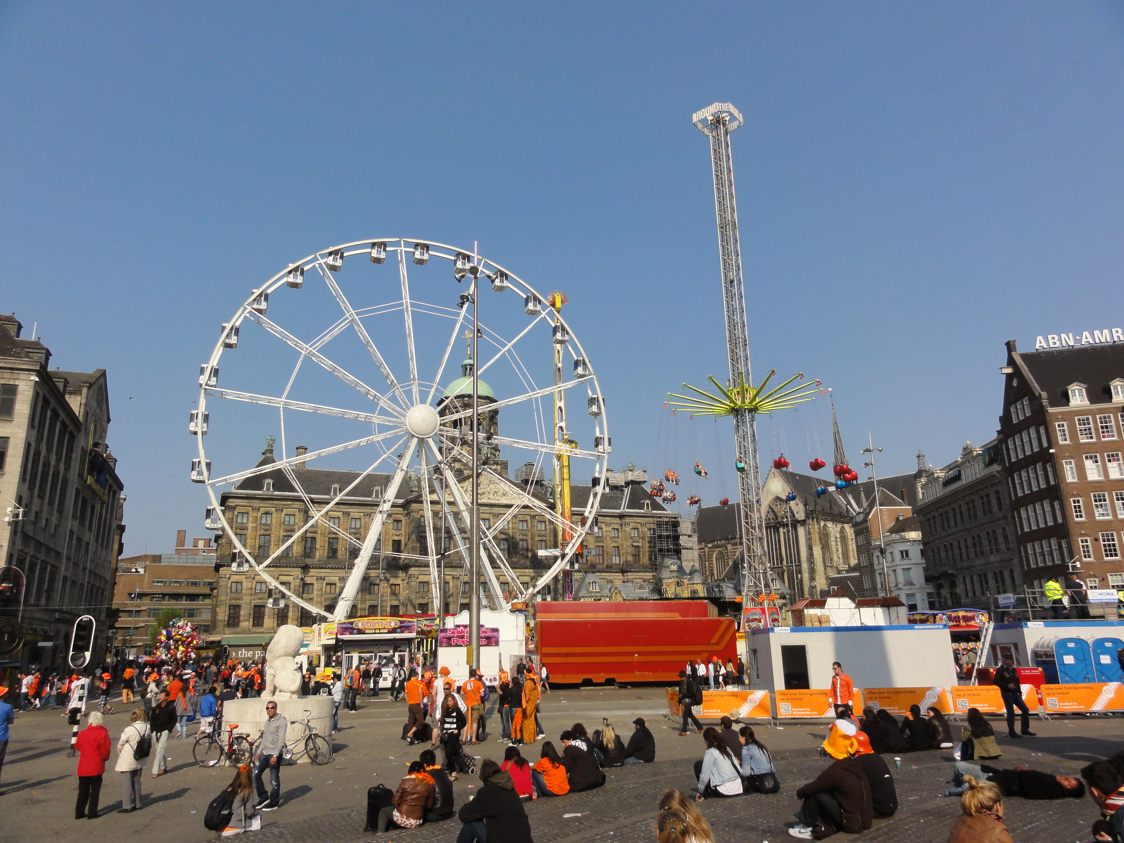 Funfair attractions on Queensday at The Dam in Amsterdam.